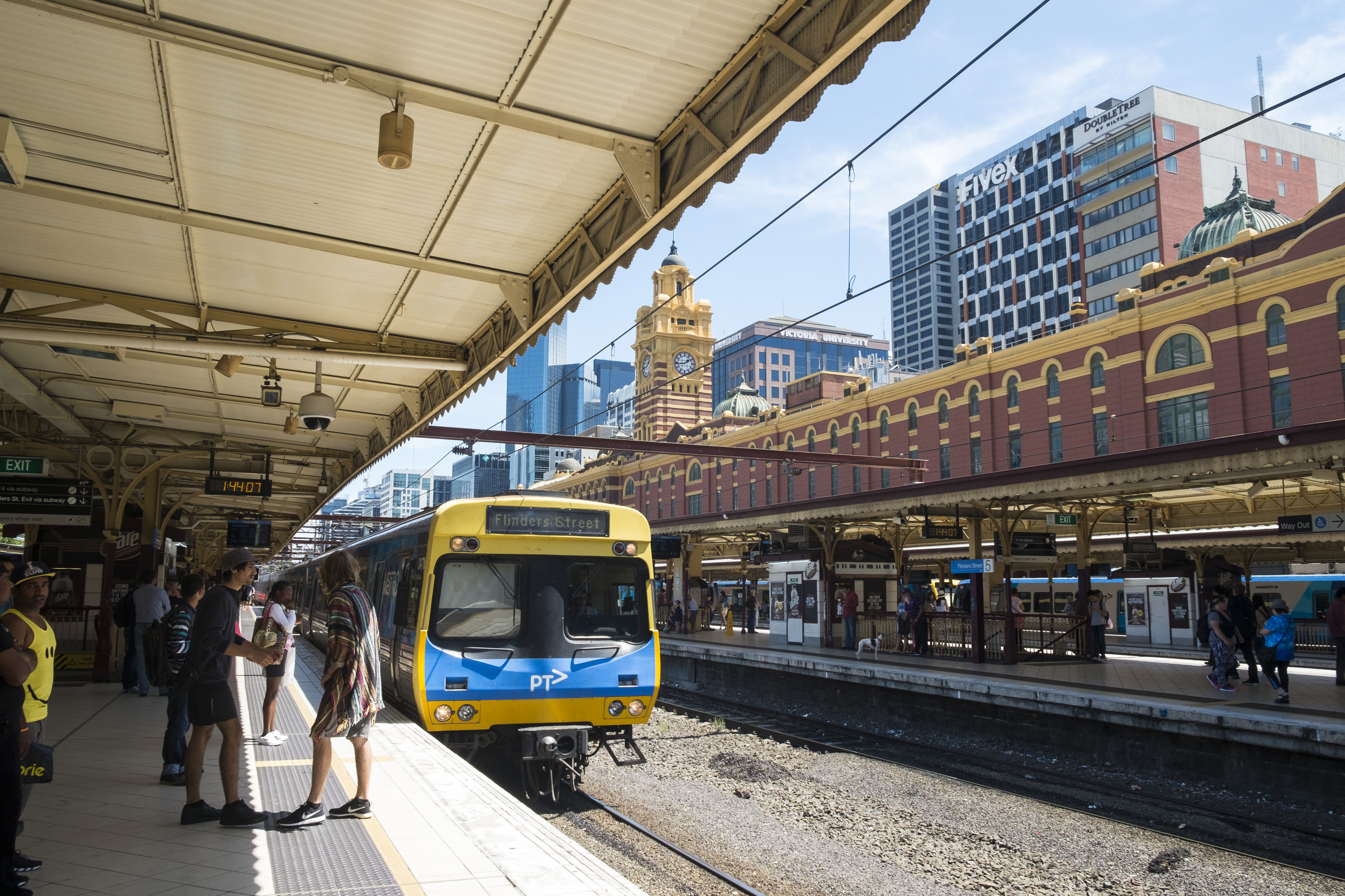 Platform of Flinders Street station, Melbourne